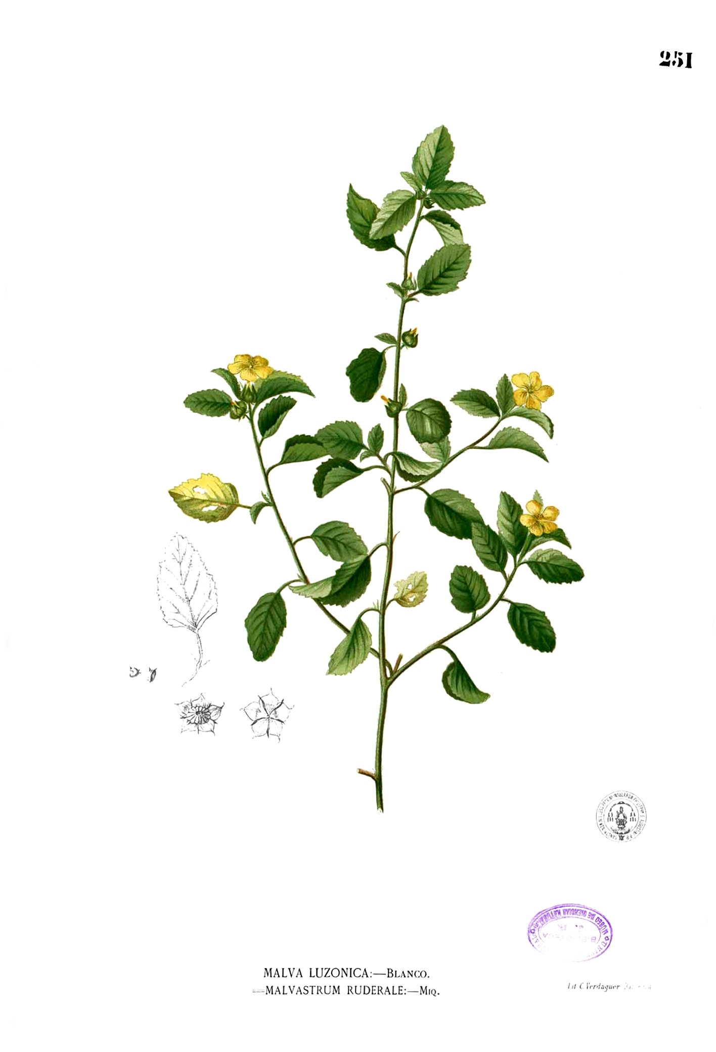 Plate from book